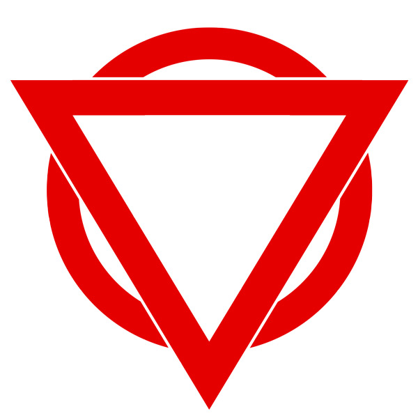 British band Enter Shikari logo